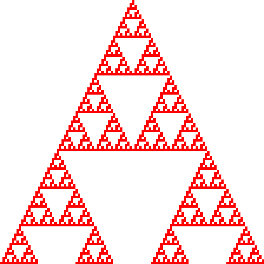 An XOR-gate in the Combinations rule set